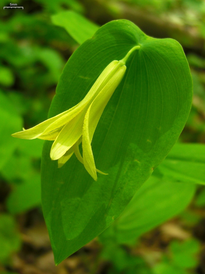 Uvularia perfoliata 20100504.15 Great Smoky Mountains, NC